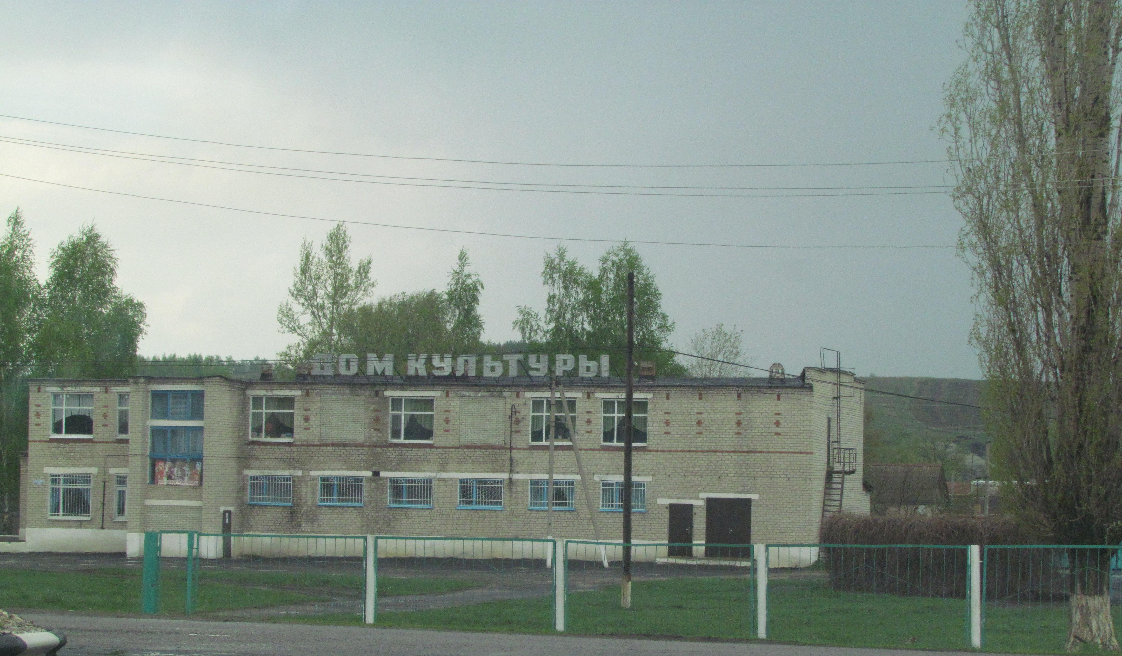 House of Culture in Vertunovka (Bekovo)